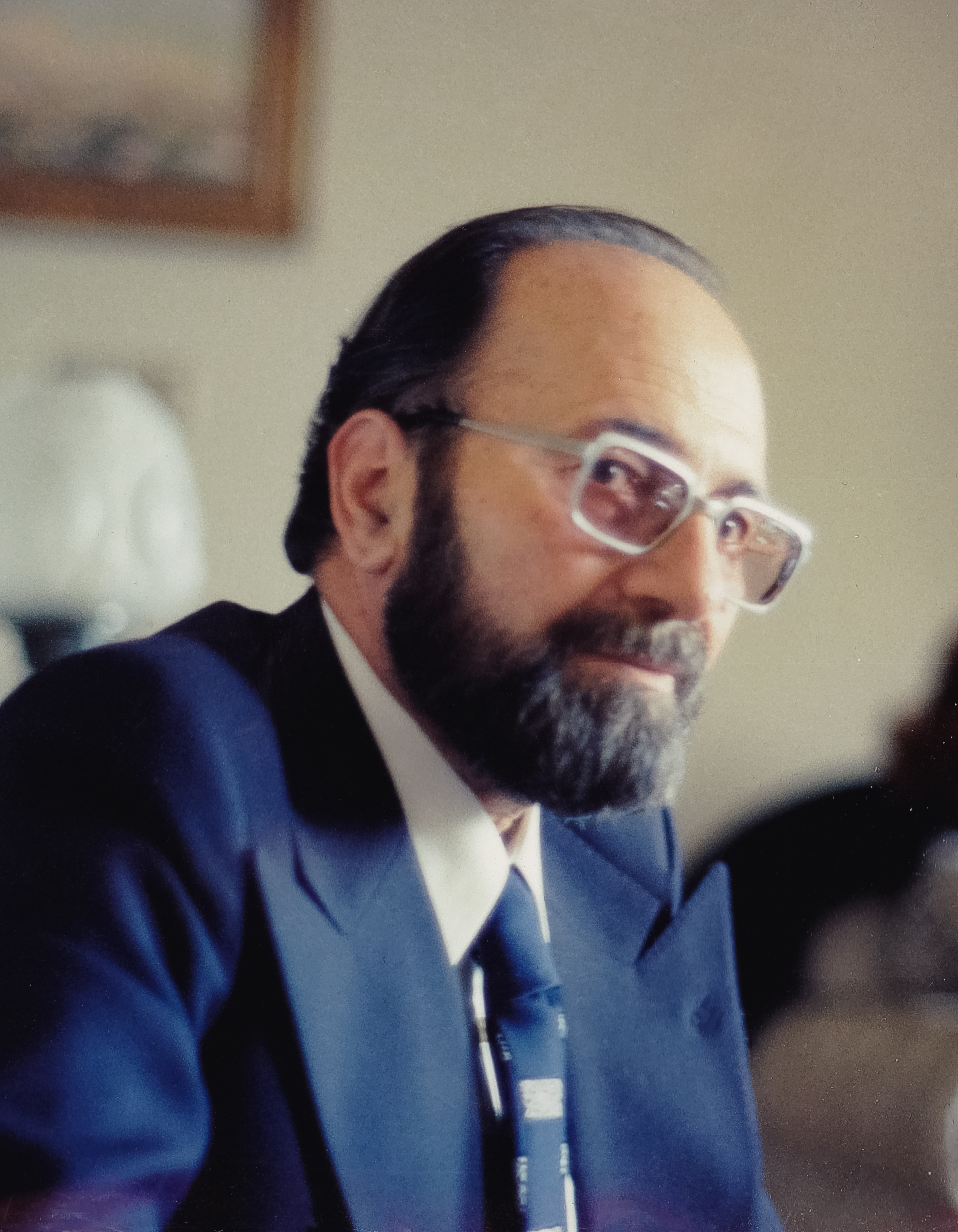 Photograph of the iranian chemical engineer Parwiz Taslimi (born 1919).